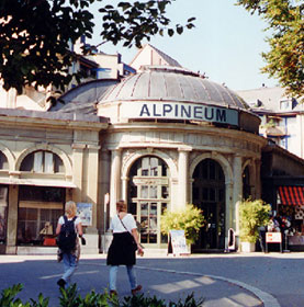 Alpineum Lucerne